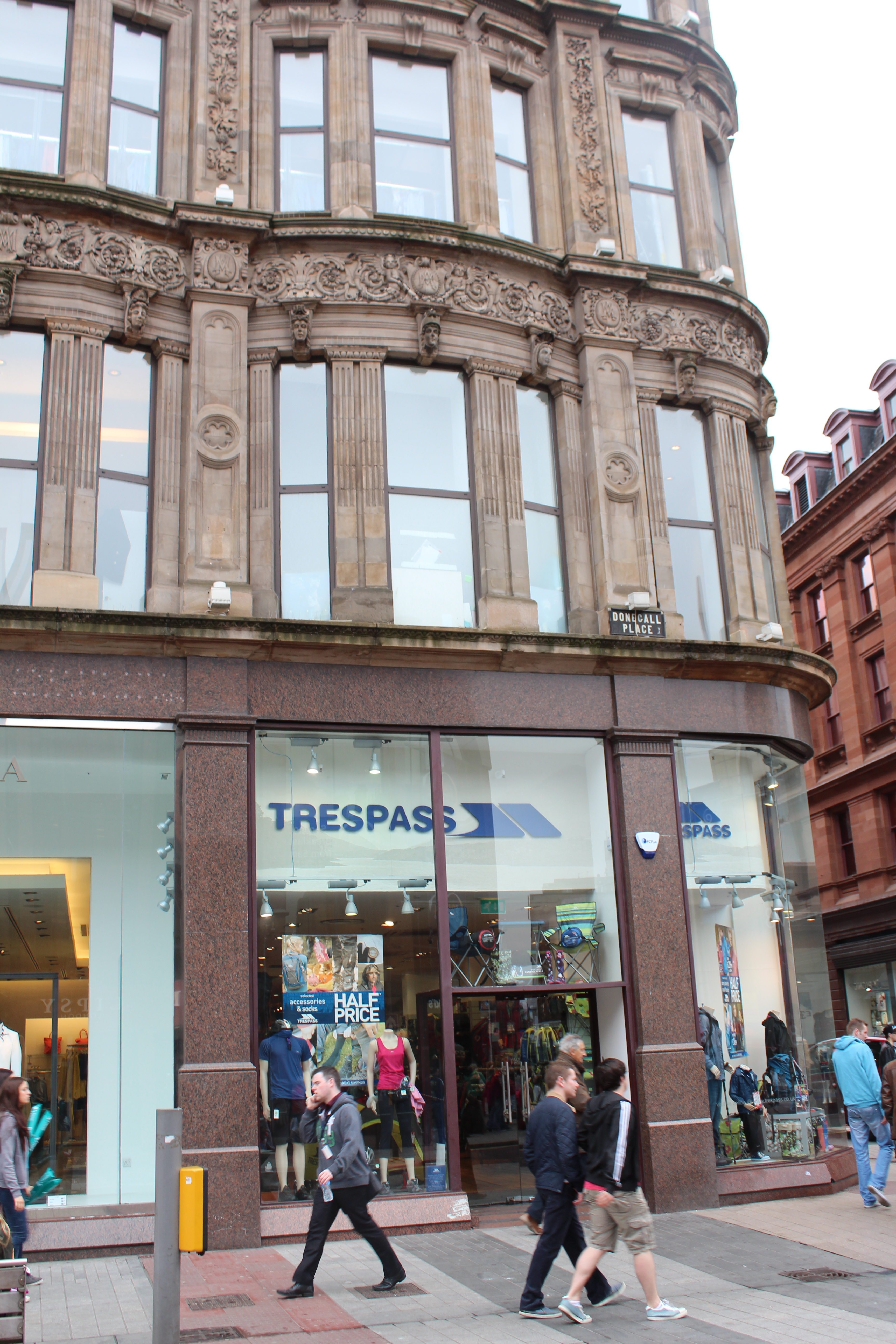 Trespass clothing shop, Donegall Place, Belfast, Northern Ireland, May 2013 (on the corner with Castle Street)